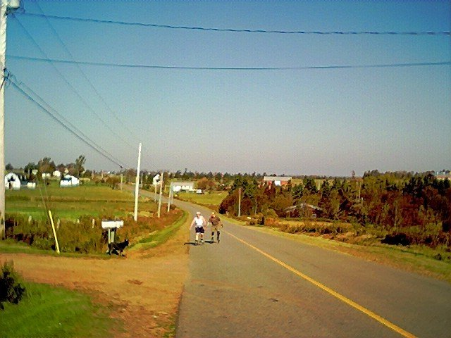 York Point Road, York Point, Prince Edward Island, Canada